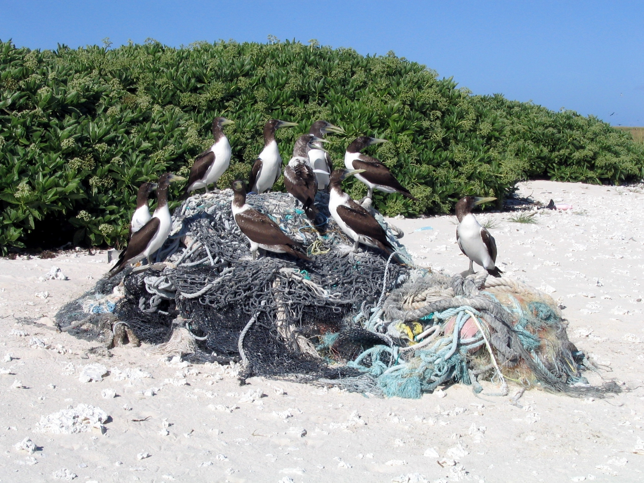 Young Masked Boobies Sula dactylatra sitting on marine debris. Green Island, Kure Atoll, Northwestern Hawaiian Islands